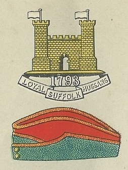 Badge and service cap as worn at the outbreak of World War II